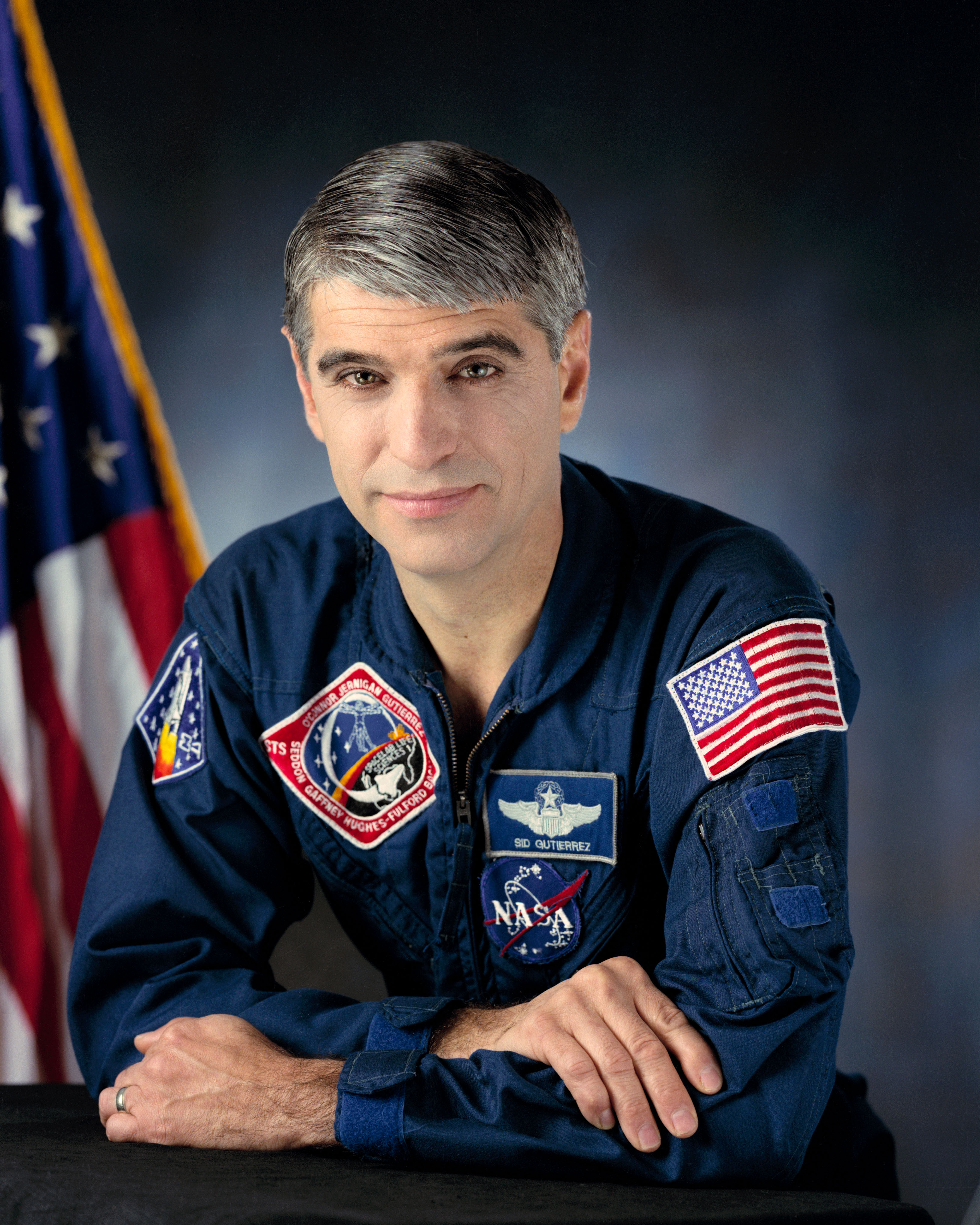 Official portrait of Astronaut Sidney M. Gutierrez wearing a blue flight suit.